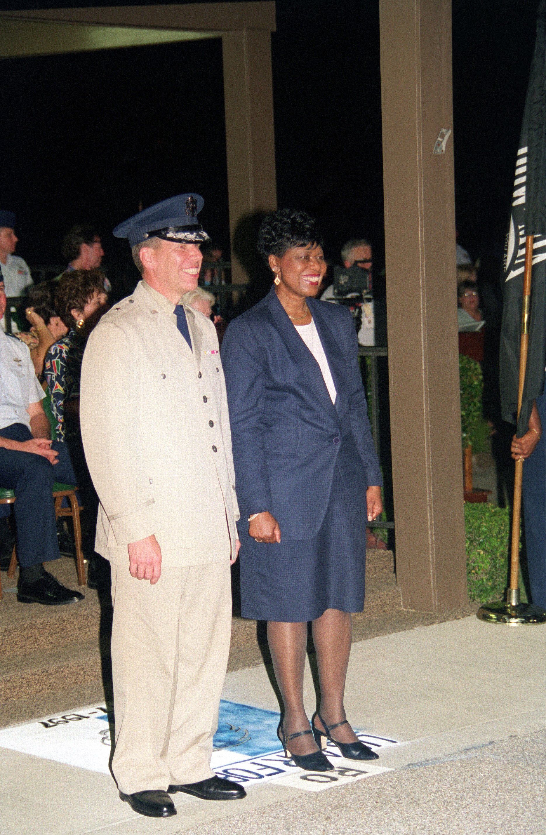 US Air Force Brigadier General John M. Speigel, Commander of the 81st Training Wing, Keesler Air Force Base, Mississippi, along with Ms Ruby DeMesme, Deputy Assistant Secretary of the Air Force for Force Management and Personnel, review the passing of the troops during a parade celerating the Air Forces 50th Anniversary, September 18, 1997.